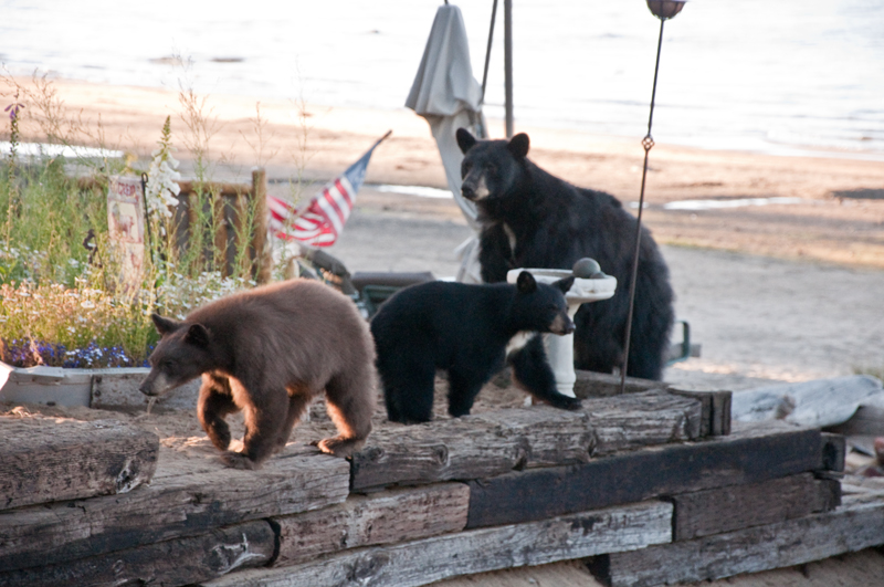 Now that the tourists are gone, this bear family came down to enjoy the beach.